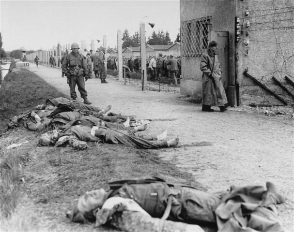 An American soldier stands beside the bodies of SS personnel shot by U.S. troops during the liberation of Dachau.